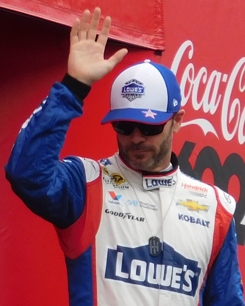 Jimmie Johnson during driver introductions before the Coca-Cola 600 at Charlotte Motor Speedway in 2016